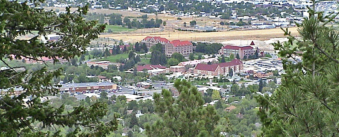 Southern portion of Carroll College, Helena, Montana, U.S. (view does not encompass field house and athletic fields to the north (left in the picture). View looking northeast from Mount Helena. Digital enhancements: brightness, contrast, sharpness.